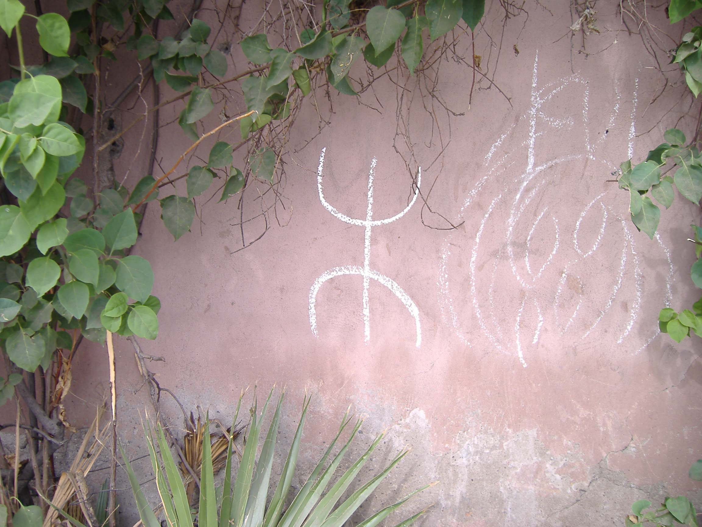 The letter Z (yaz) of the Tifinagh alphabet, drawn on a wall. It is the symbol of the Imazighen people.